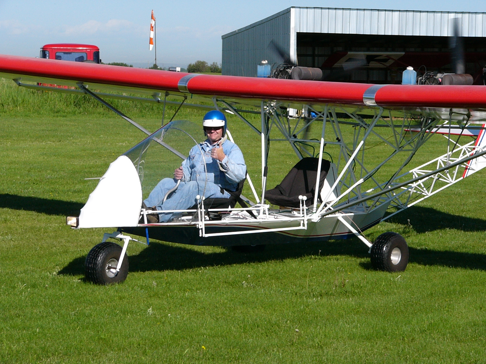 Aircraft designer Wayne Winters taxis the Blue Yonder Twin Engine EZ Flyer C-ITEZ at Winter's Aire Park, Indus, Alberta, Canada